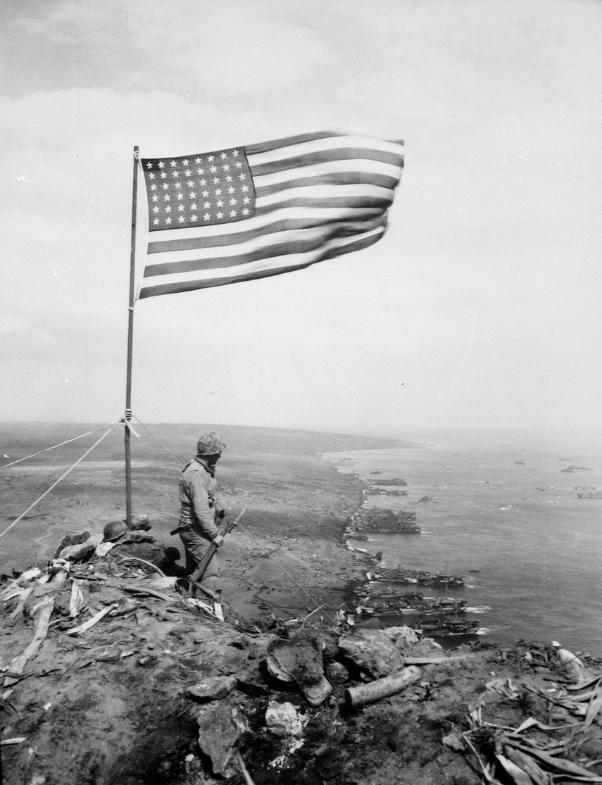 "From the crest of Mount Suribachi, the Stars and Stripes wave in triumph over Iwo Jima after U.S. Marines had fought their way inch by inch up its steep lava-encrusted slopes., ca. 02/1945"